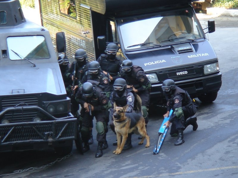 BOPE's military during a police raid, between the means is an Iveco Daily